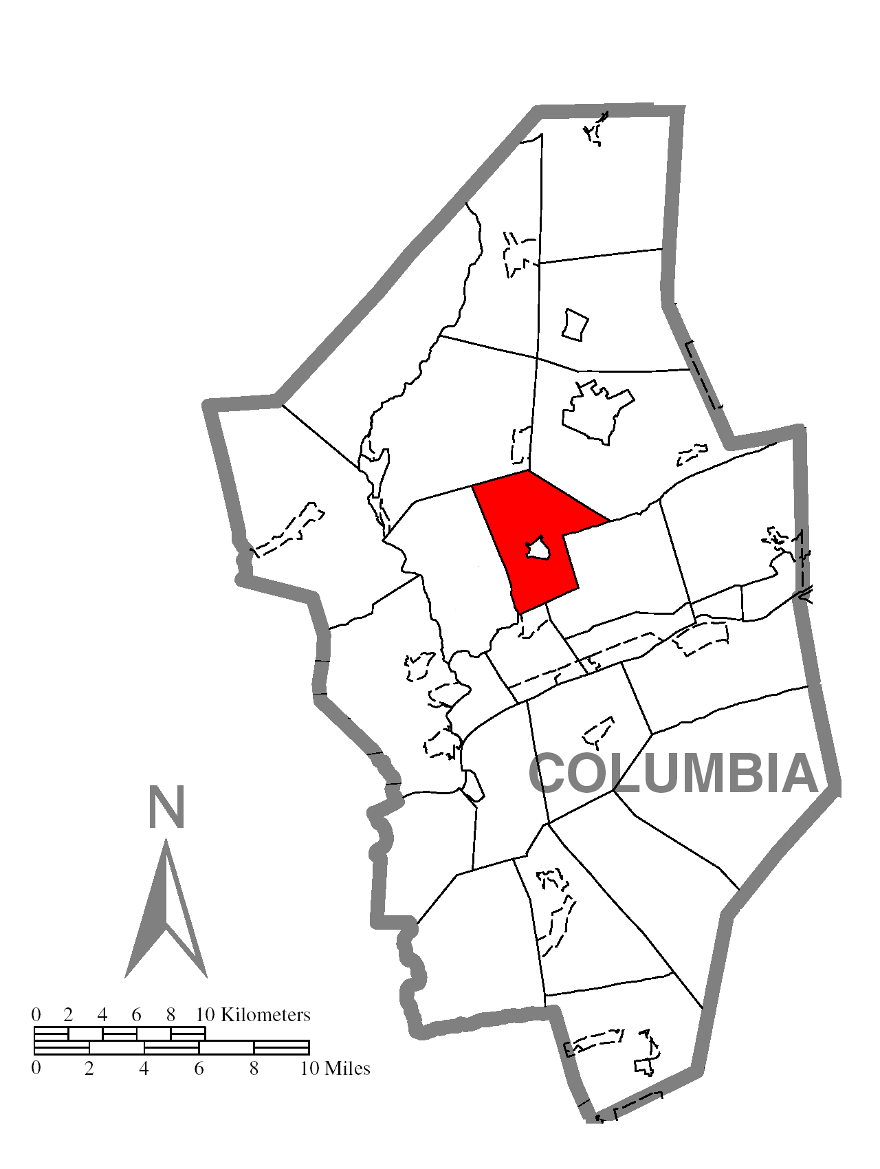 A map of Columbia County showing Orange Township, Pennsylvania (alternate) highlighted on the map.